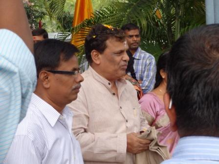 Silver jubilee celebration of jnv bagudi